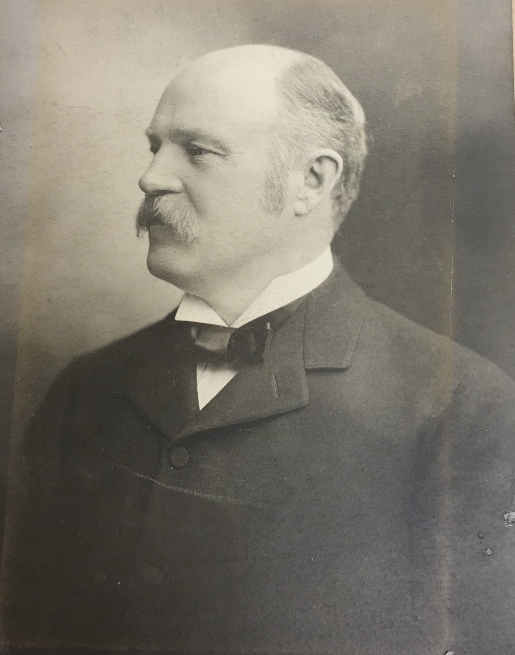 Photograph of Albert Pattengill